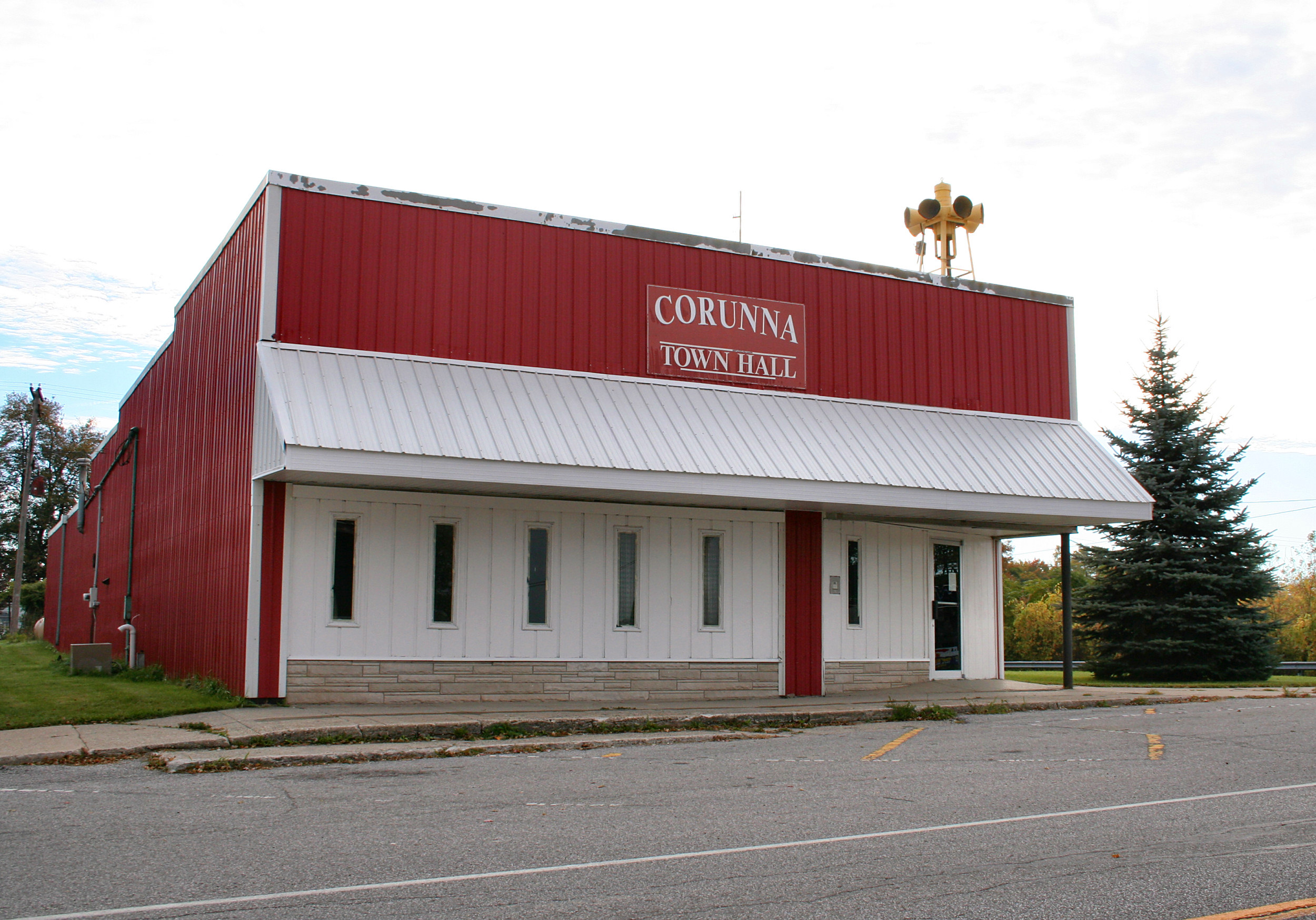 Town hall in Corunna, Indiana. Photo shot by Derek Jensen (Tysto), 2005-October-17